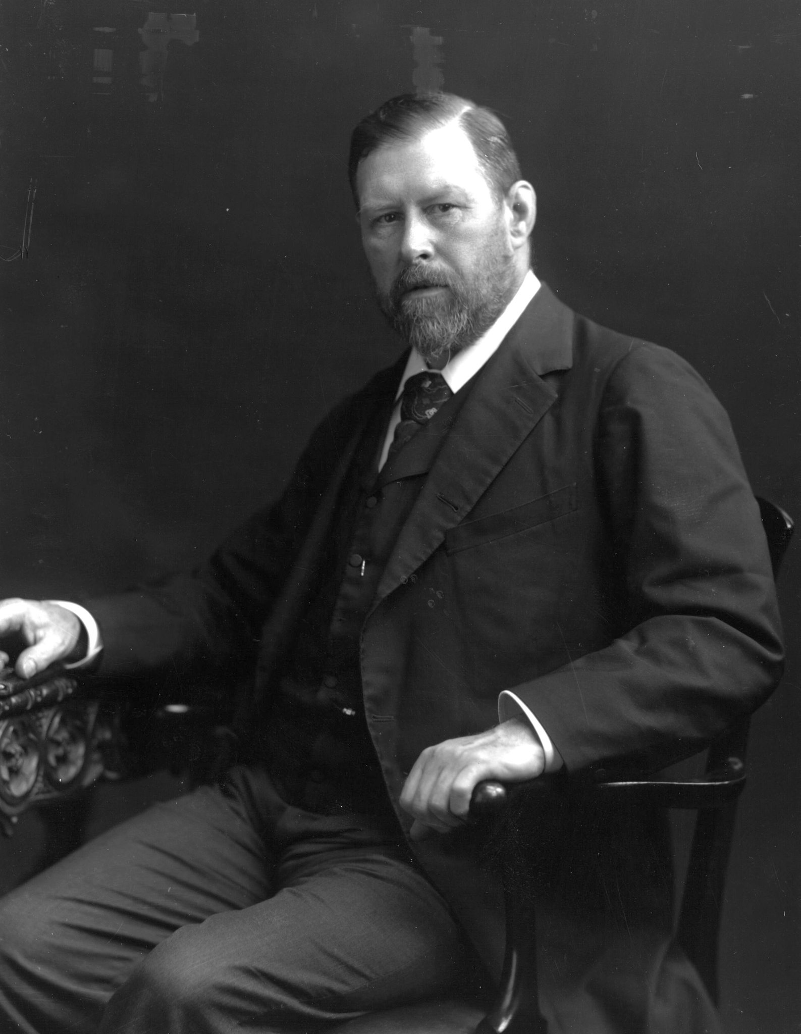 Bram Stoker (1847-1912), novelist born in Ireland, author of "Dracula"